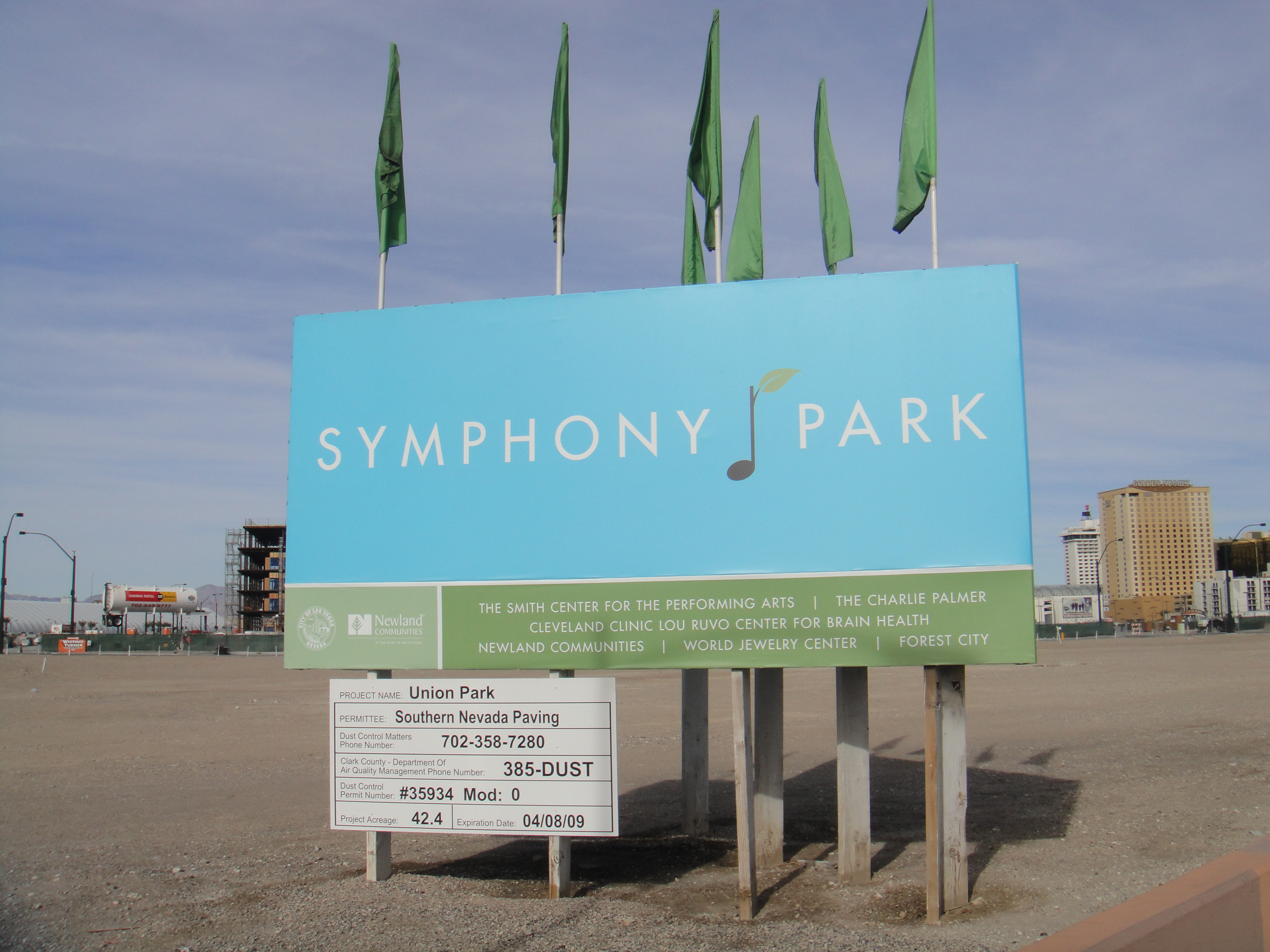 Project sign on the south side of the Symphony Park re-development in Las Vegas, Nevada